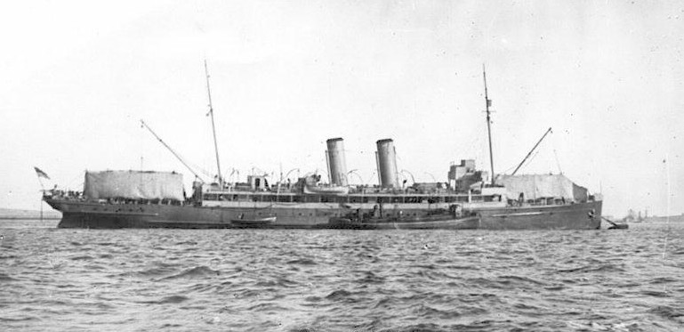 HMS Riviera at anchor, 1914–15